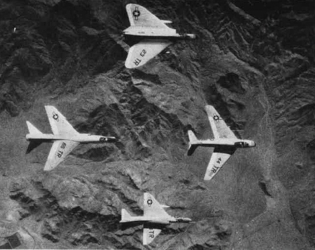 Four fighters of the U.S. Navy Fleet Air Gunnery Unit (FAGU), stationed at the Naval Auxiliary Air Station El Centro, California (USA), in 1958-59. The FAGU trained weapons training officers for the U.S. Navy and the U.S. Marine Corps squadrons and was located at NAAS El Centro between June 1956 and June 1959. It was diesestblished at MCAS Yuma on 29 February 1960. The four aircraft types flown by the FAGU were the Douglas F4D-1 Skyray (top), the North American FJ-4B Fury (right), the Vought F8U-2 Crusader (left), and the Douglas A4D-2 Skyhawk(bottom).